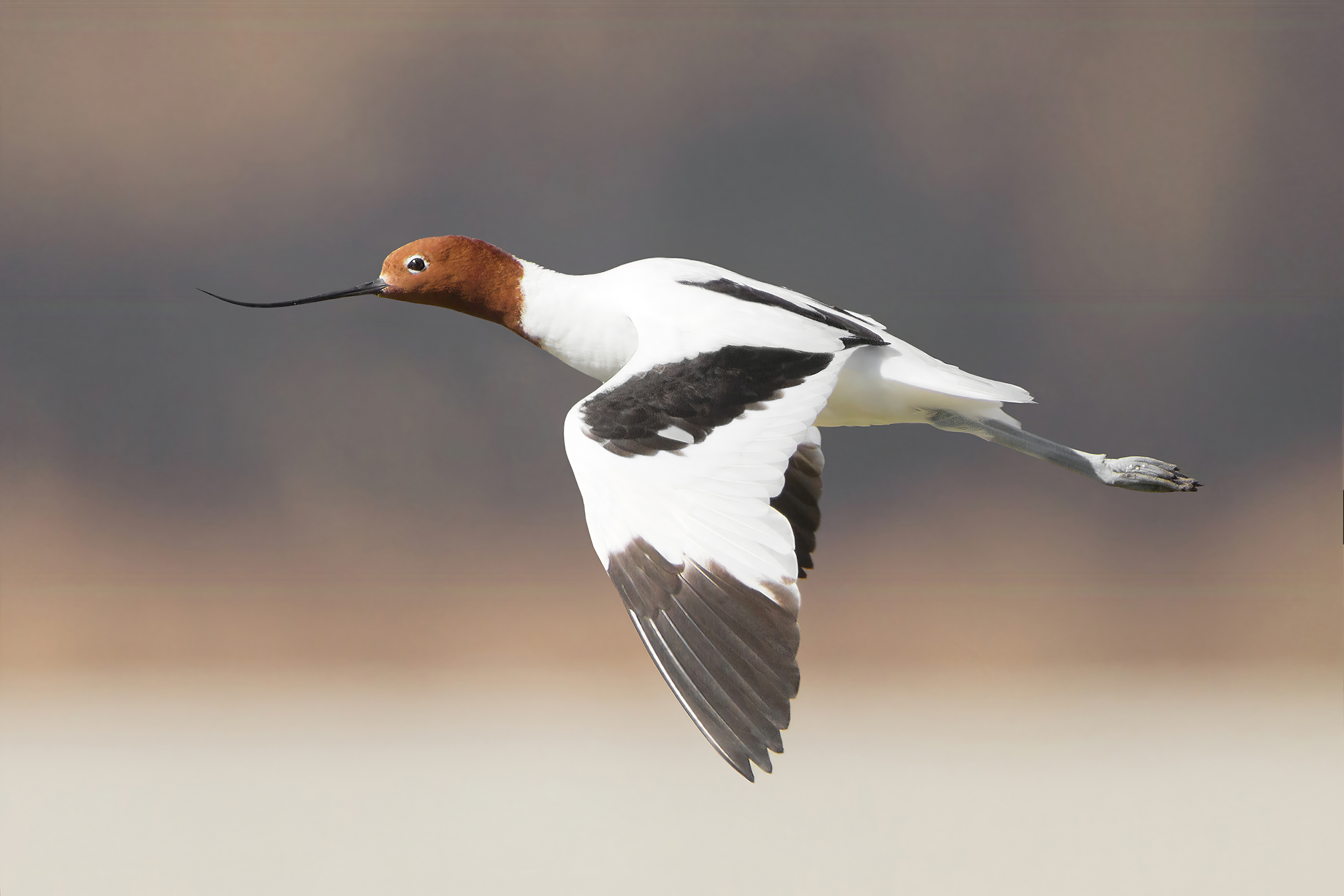 Red-necked Avocet (Recurvirostra novaehollandiae), Lake Joondalup, Perth, Western Australia, Australia